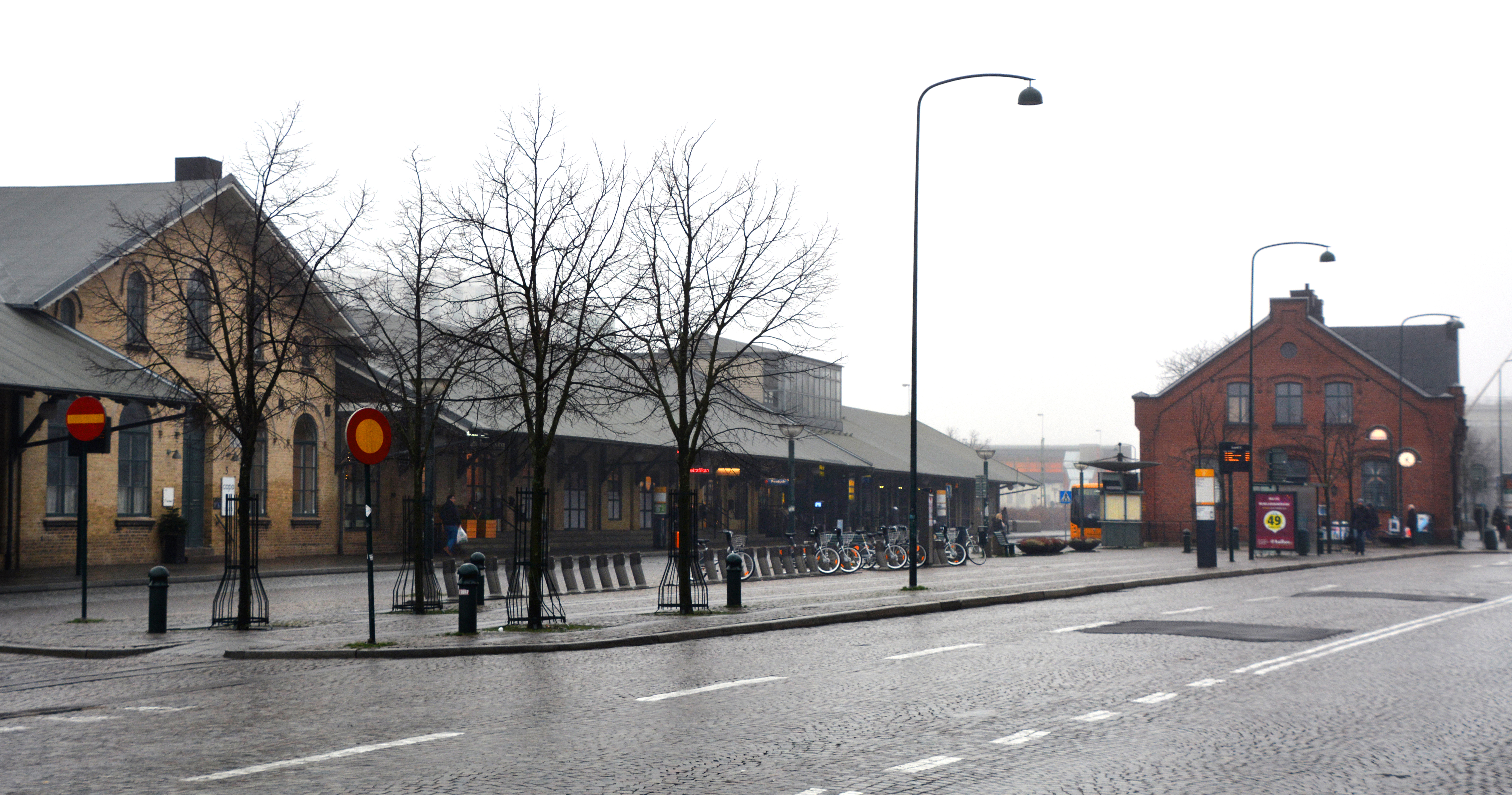 Bantorget I Lund, norr om Resecentrum